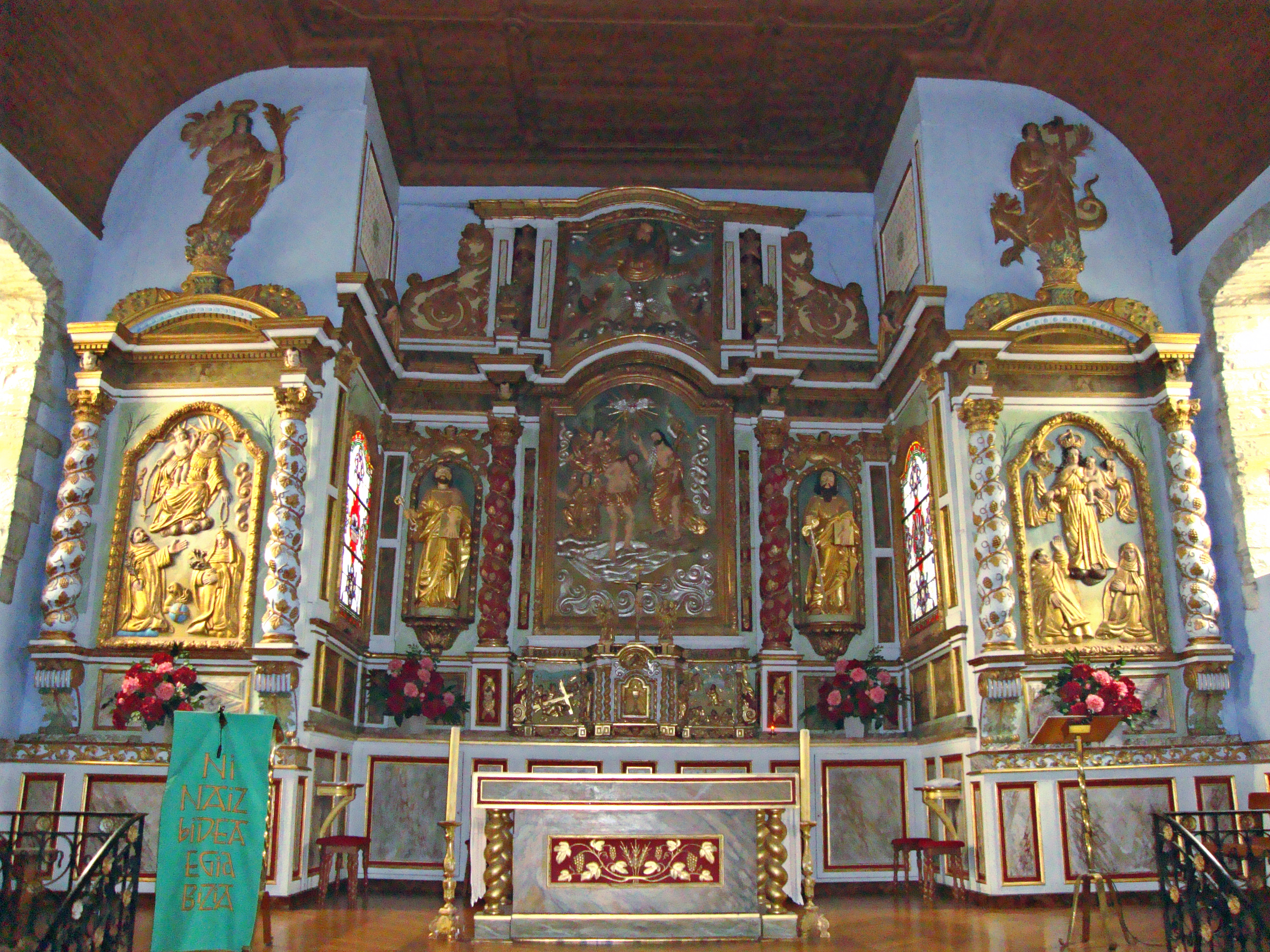 Irissarry (Pyrénées-Atlantiques, France), église Saint Jean-Baptiste, le chœur et son retable.